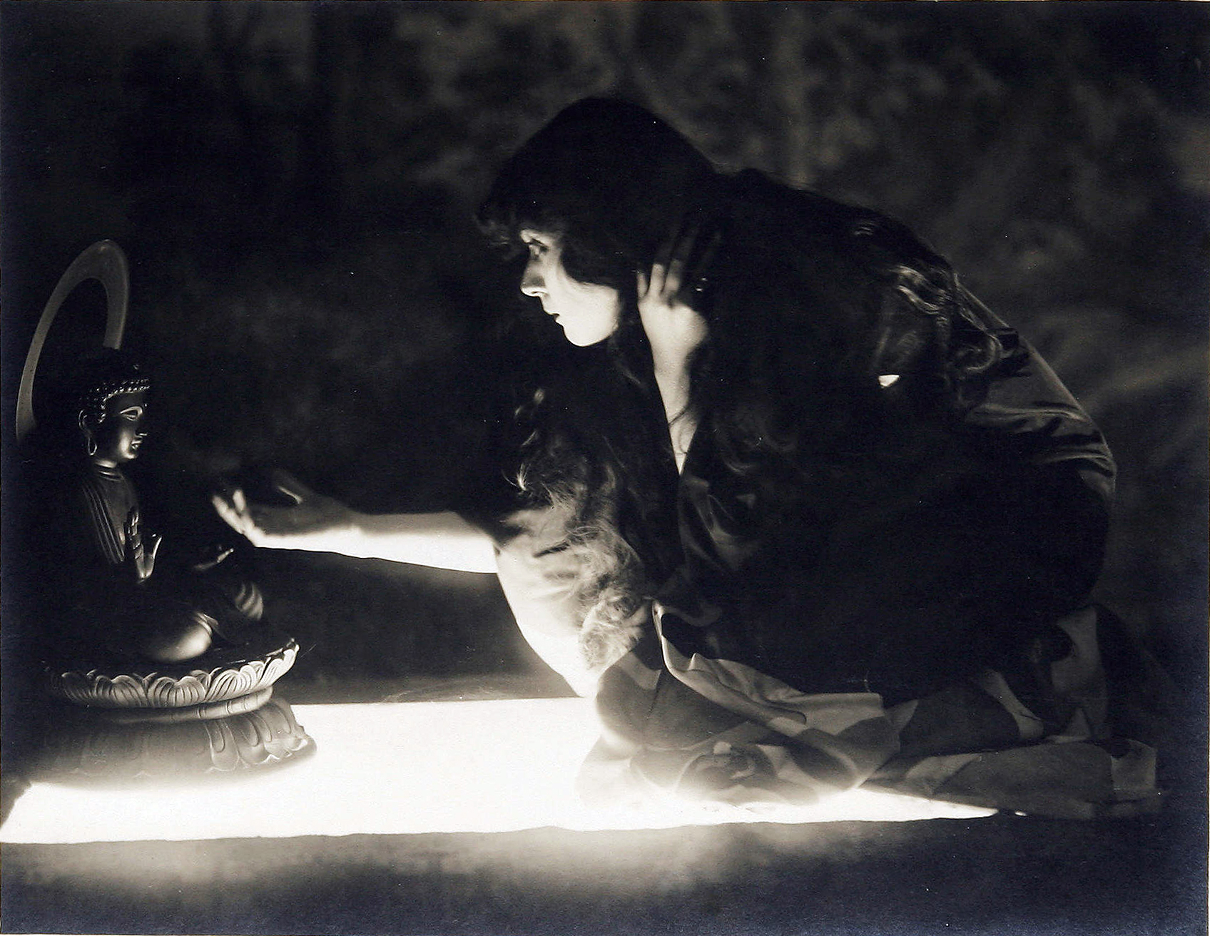 Film still for the American film The Soul of Buddha (1918) with Theda Bara.